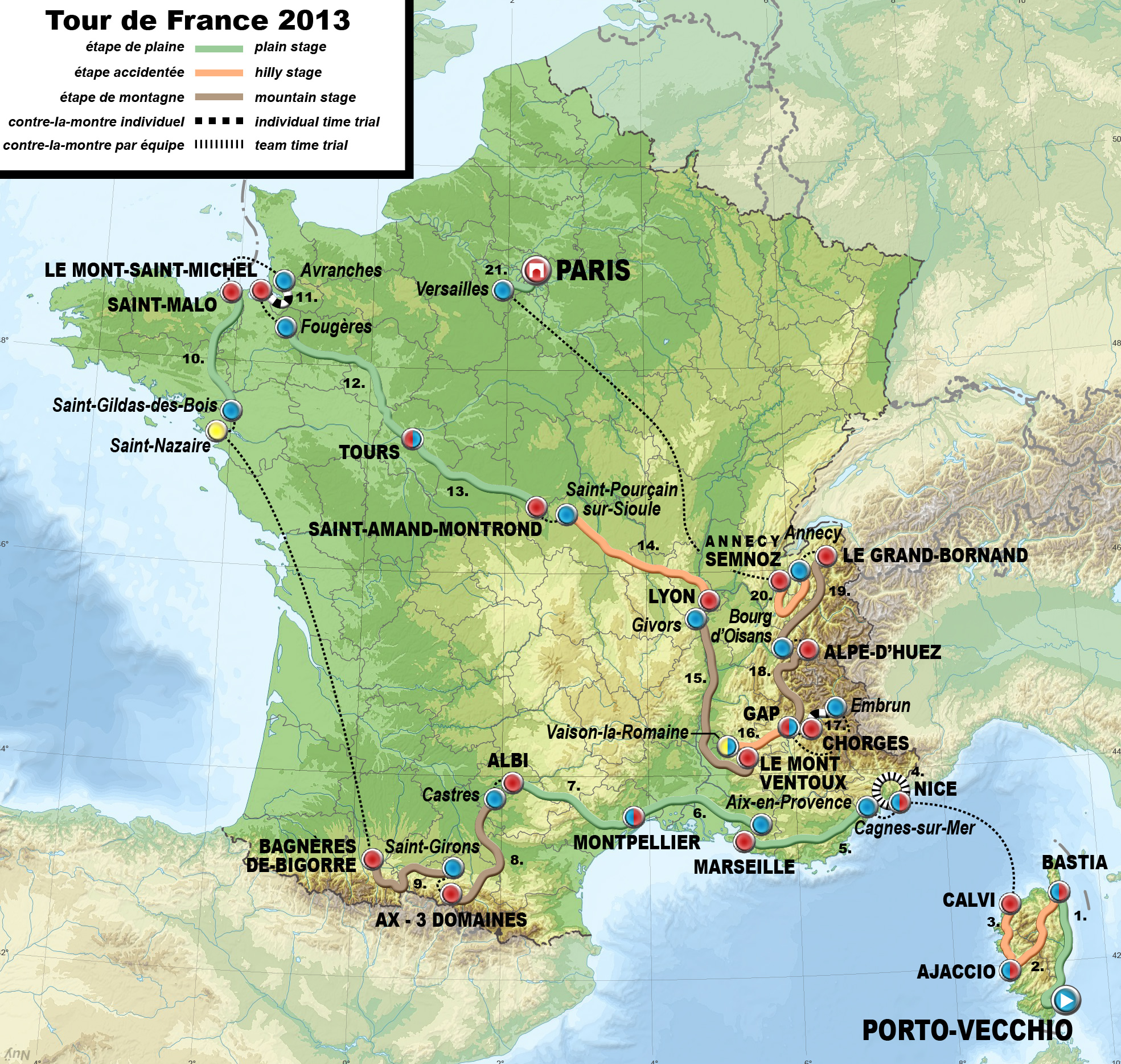 Map of the next Tour de France (2013)